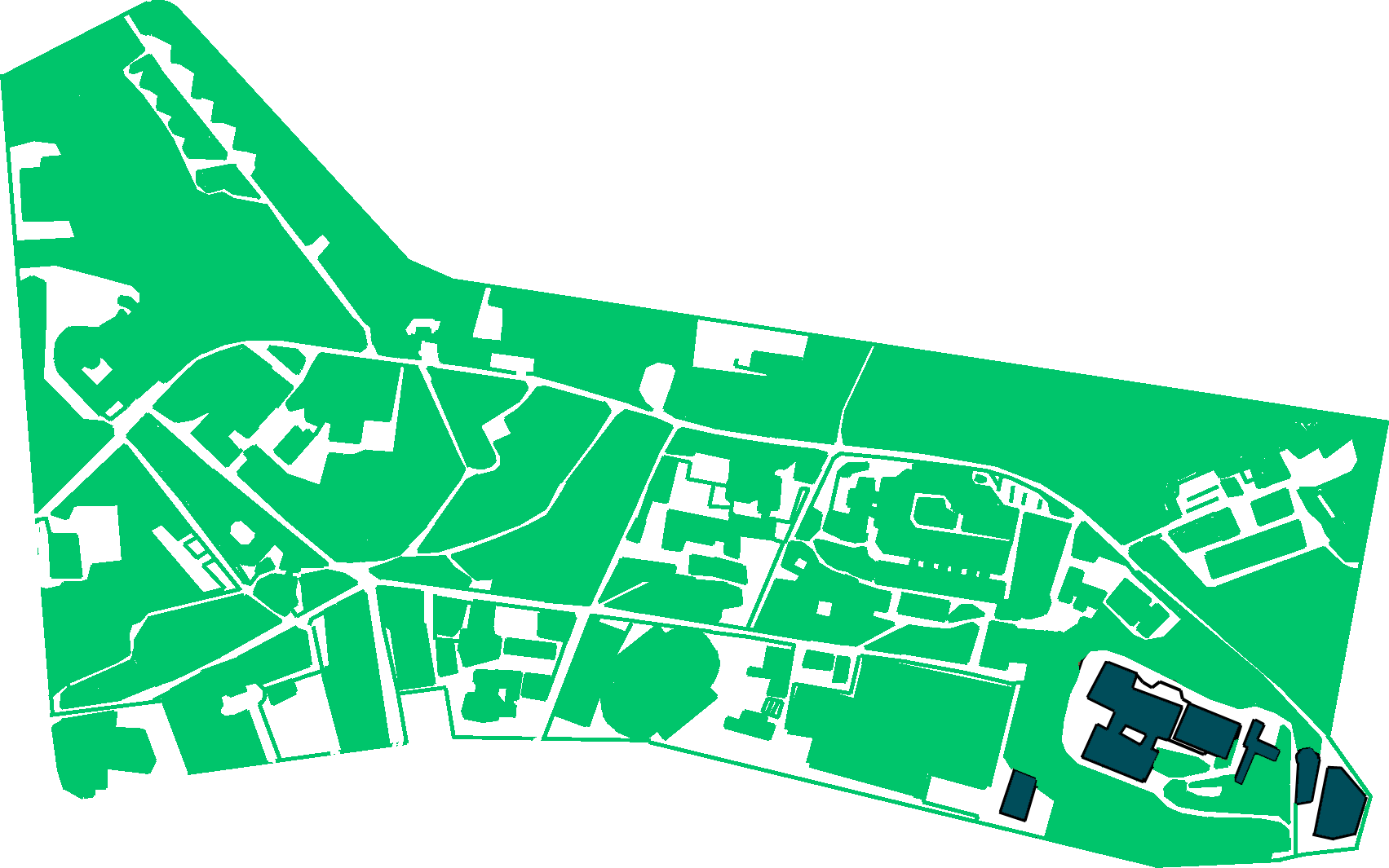 University of Jordan Native nameالجامعة الأردنيةLocationAmmanEstablished1962 User:Tarawneh/rami